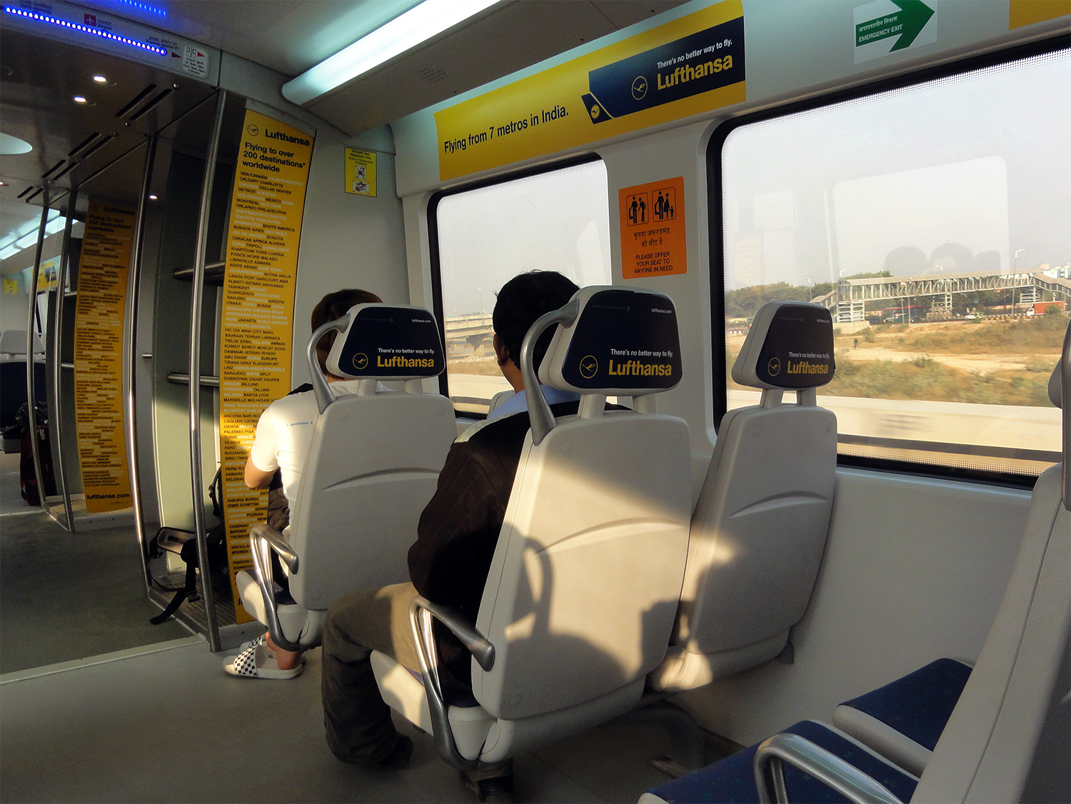 Delhi Airport Metro Express on the above ground segment